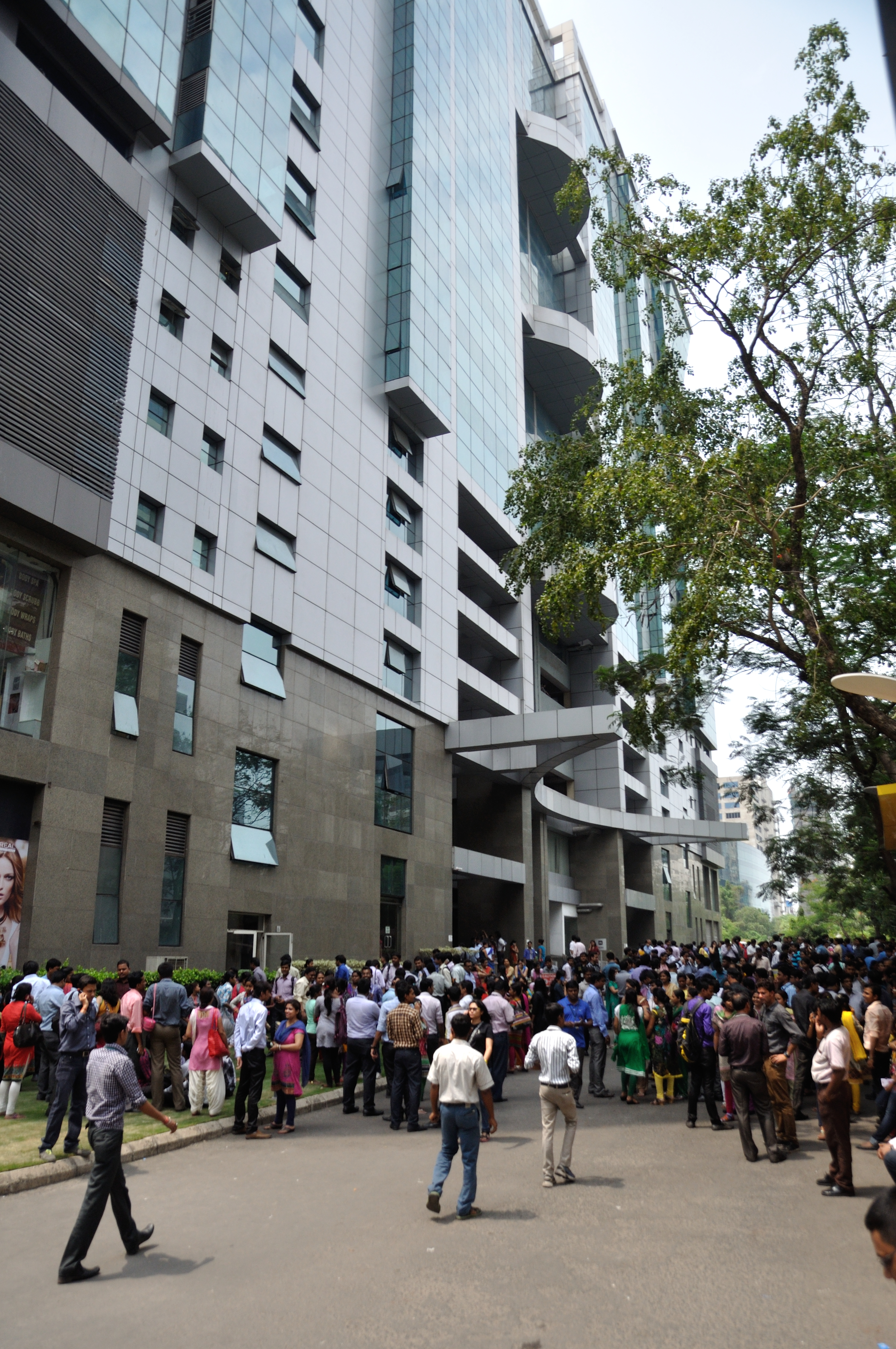 M 7.3 - Nepal Earthquake 2015-05-12 08:06:09.1 UTC Location: 27.78 N ; 86.20 E. Depth: 20 km. 32 km W of Nāmche Bāzār, Nepal / pop: 2,324 / local time: 13:51:17.3 2015-05-12. The earthquake leads people and employees in high rise buildings to move out on the street in Kolkata.